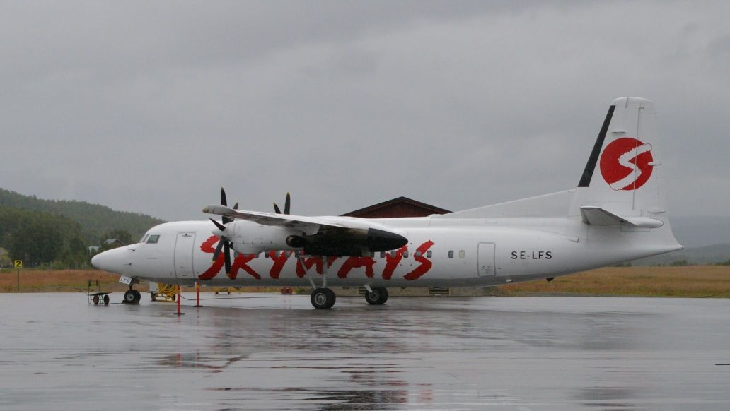 SE-LFS Skyways Express Fokker 50